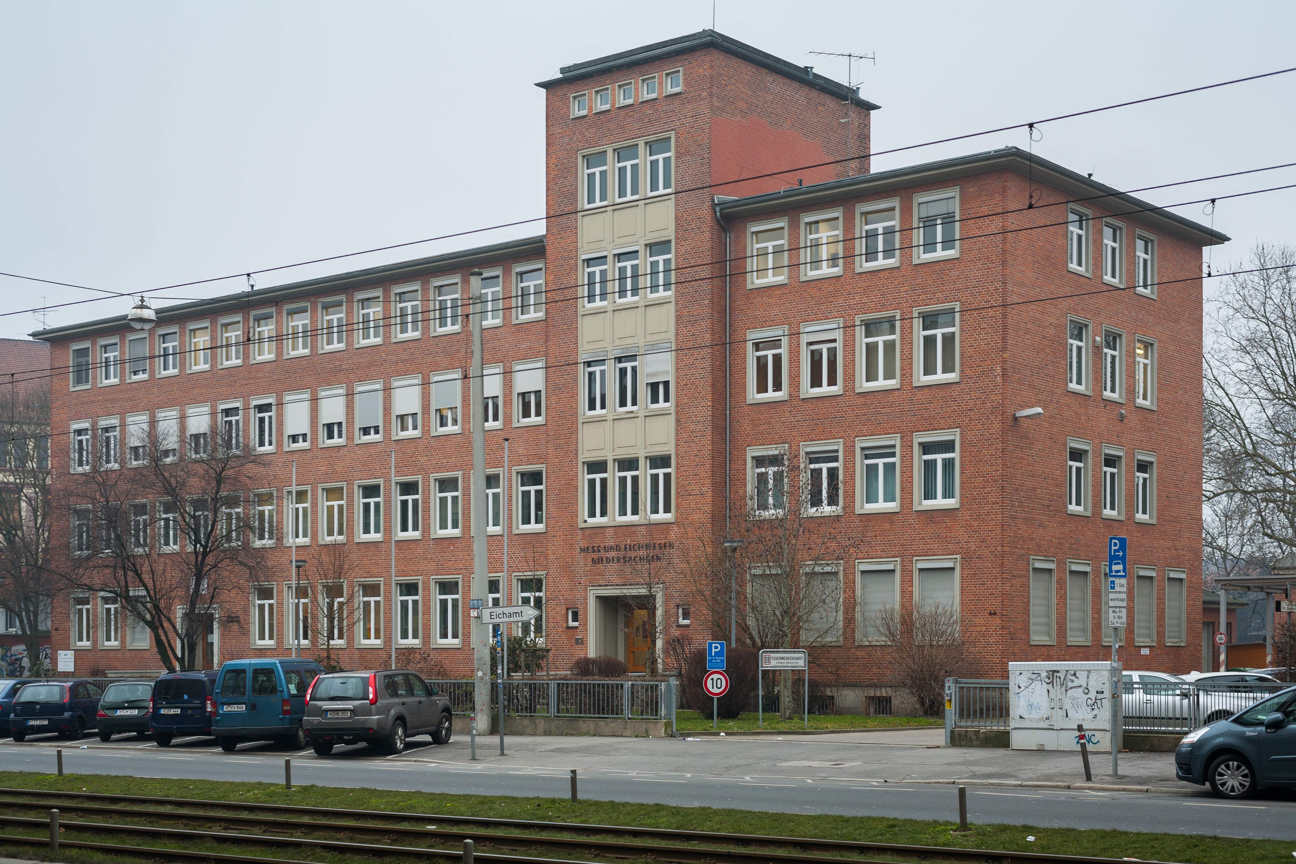 Gauging office located at Goethestrasse no. 44 in Calenberger Neustadt district of Hanover, Germany.